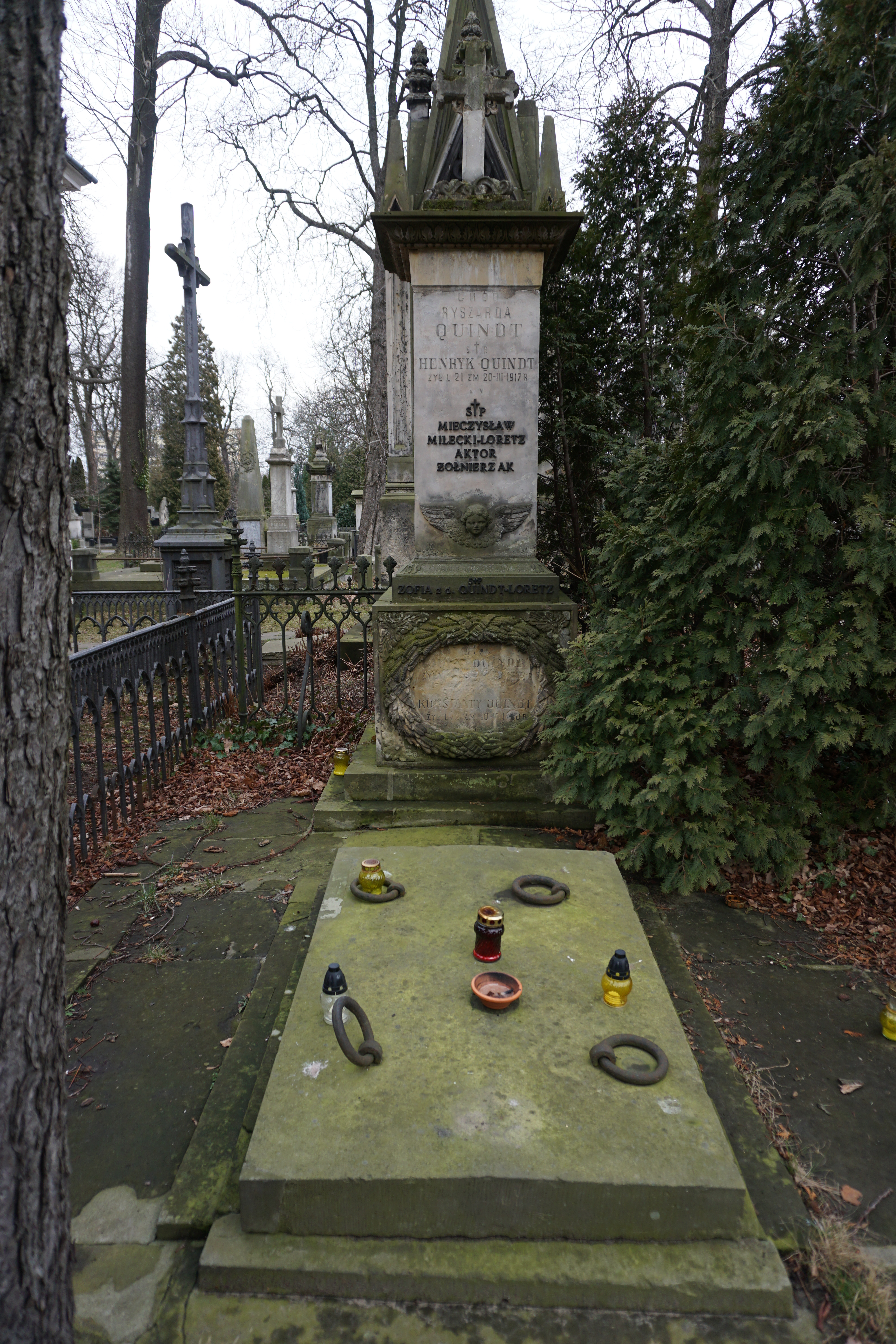 The grave of Mieczysław Milecki at the Evangelical-Augsburg Cemetery in Warsaw (avenue 2, Grave 3)